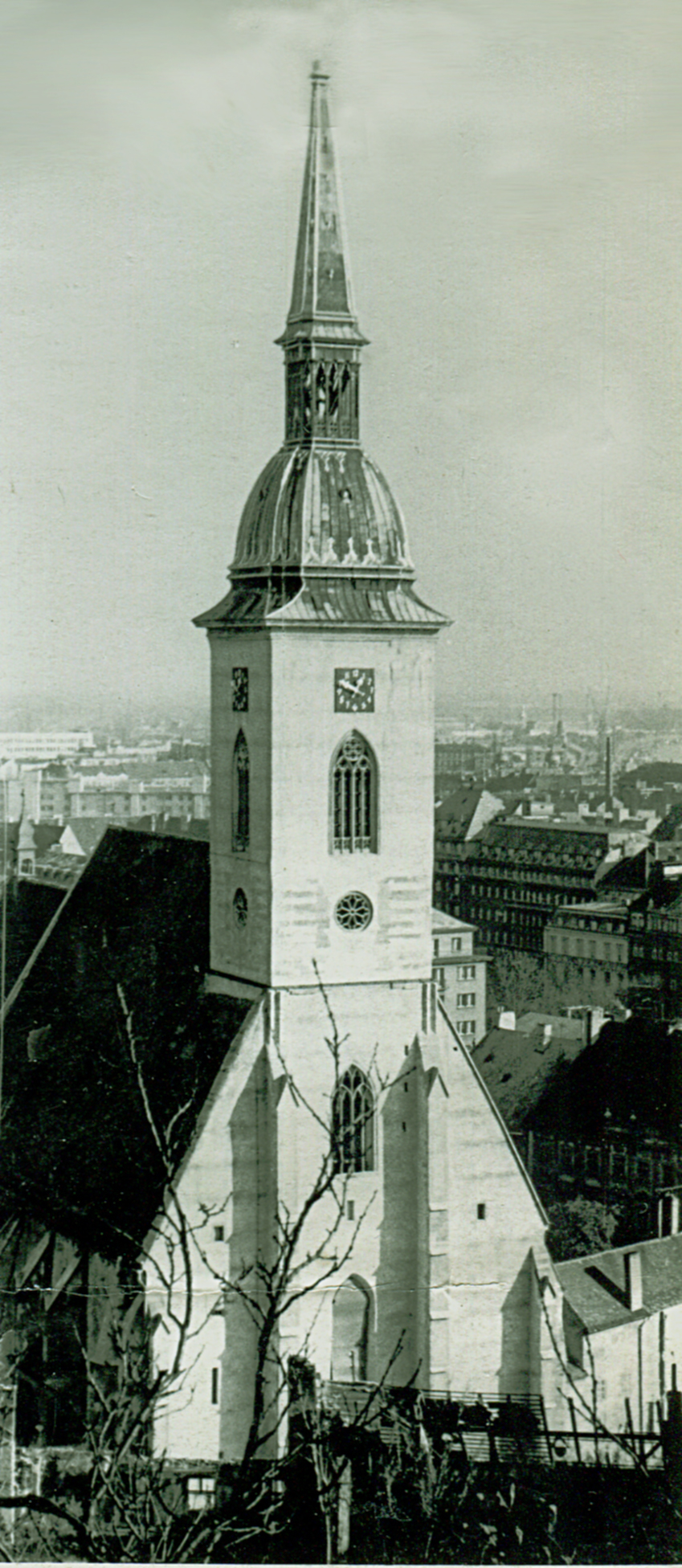 Dom_St.Martin. Bratislava